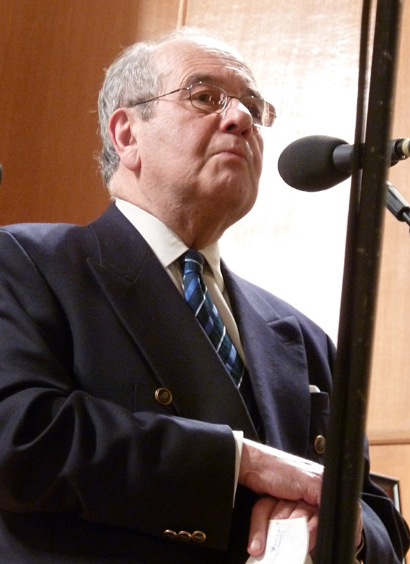 Igor Oistrach